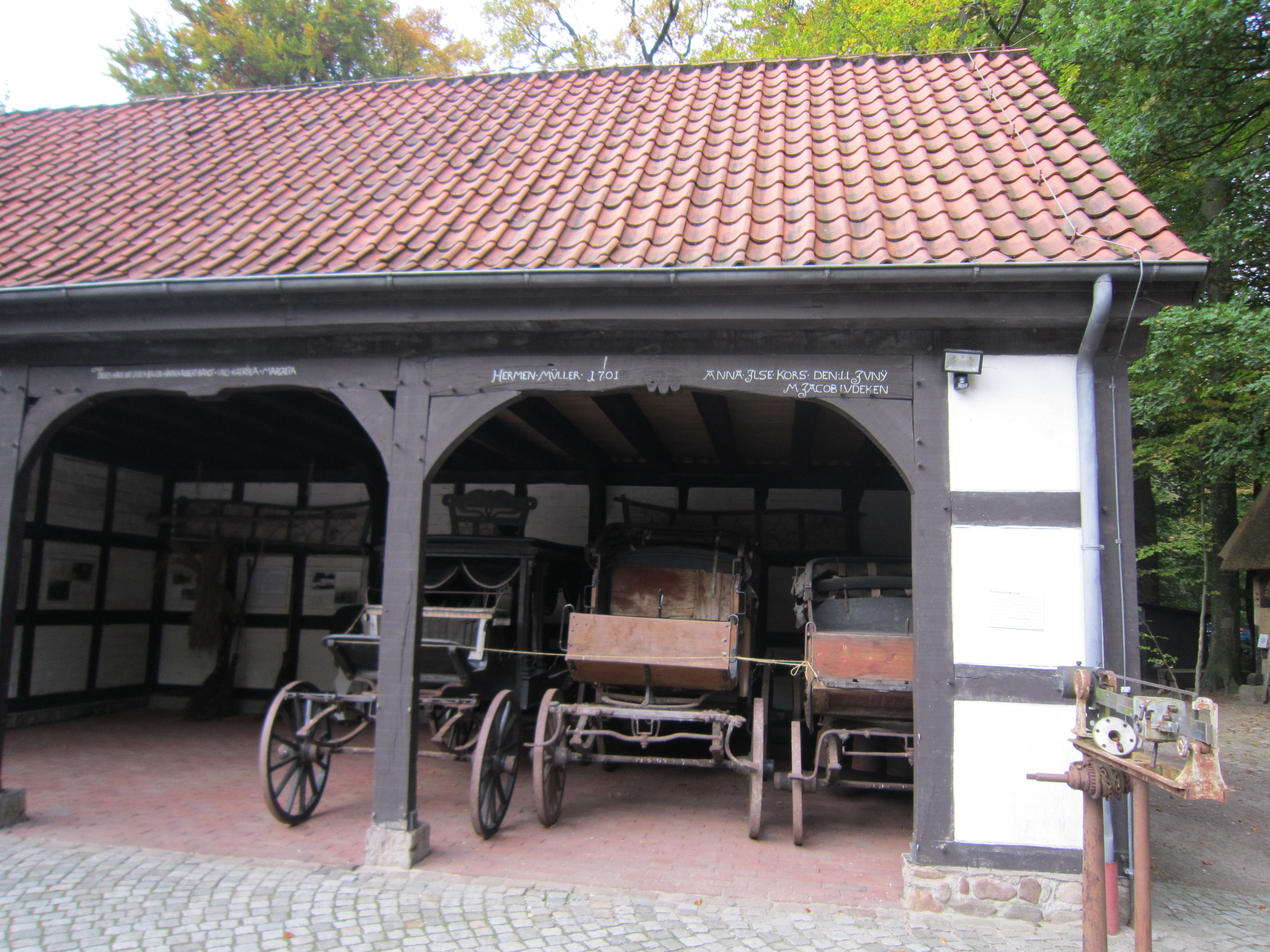 Carriage port at Syke's "Kreismuseum"